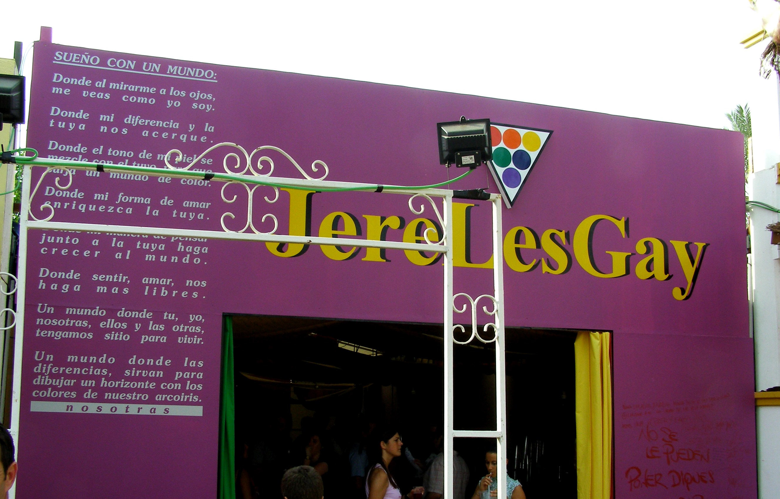 Portada Caseta de Jerelesgay, Feria del Caballo de Jerez 2006